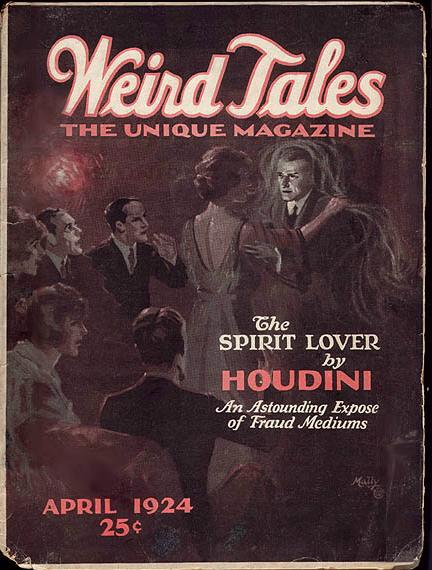 Cover of the pulp magazine Weird Tales (April 1924, vol. 3, no. 4) featuring The Spirit Lover by Harry Houdini.